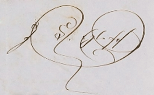 Signature of Johann Konrad Egloff